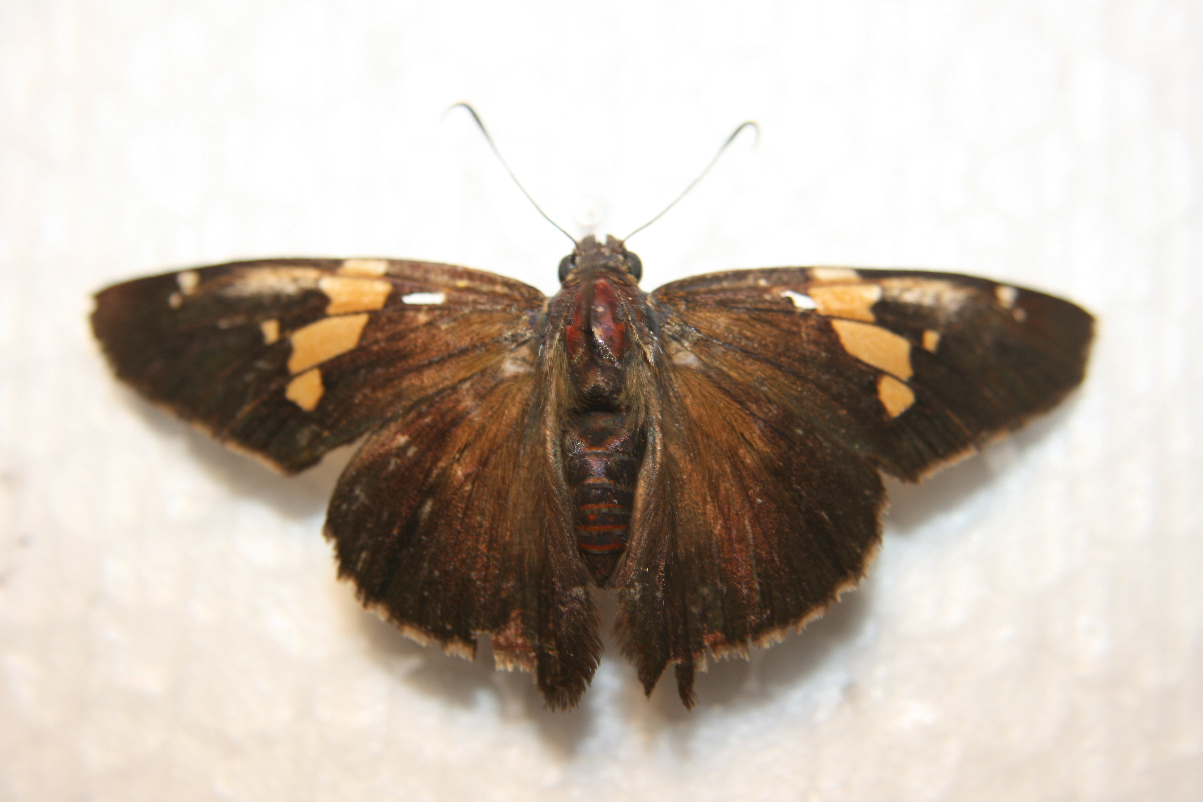 A Epargyreus clarus in the Enos collection. Caught August 21st, 2007.